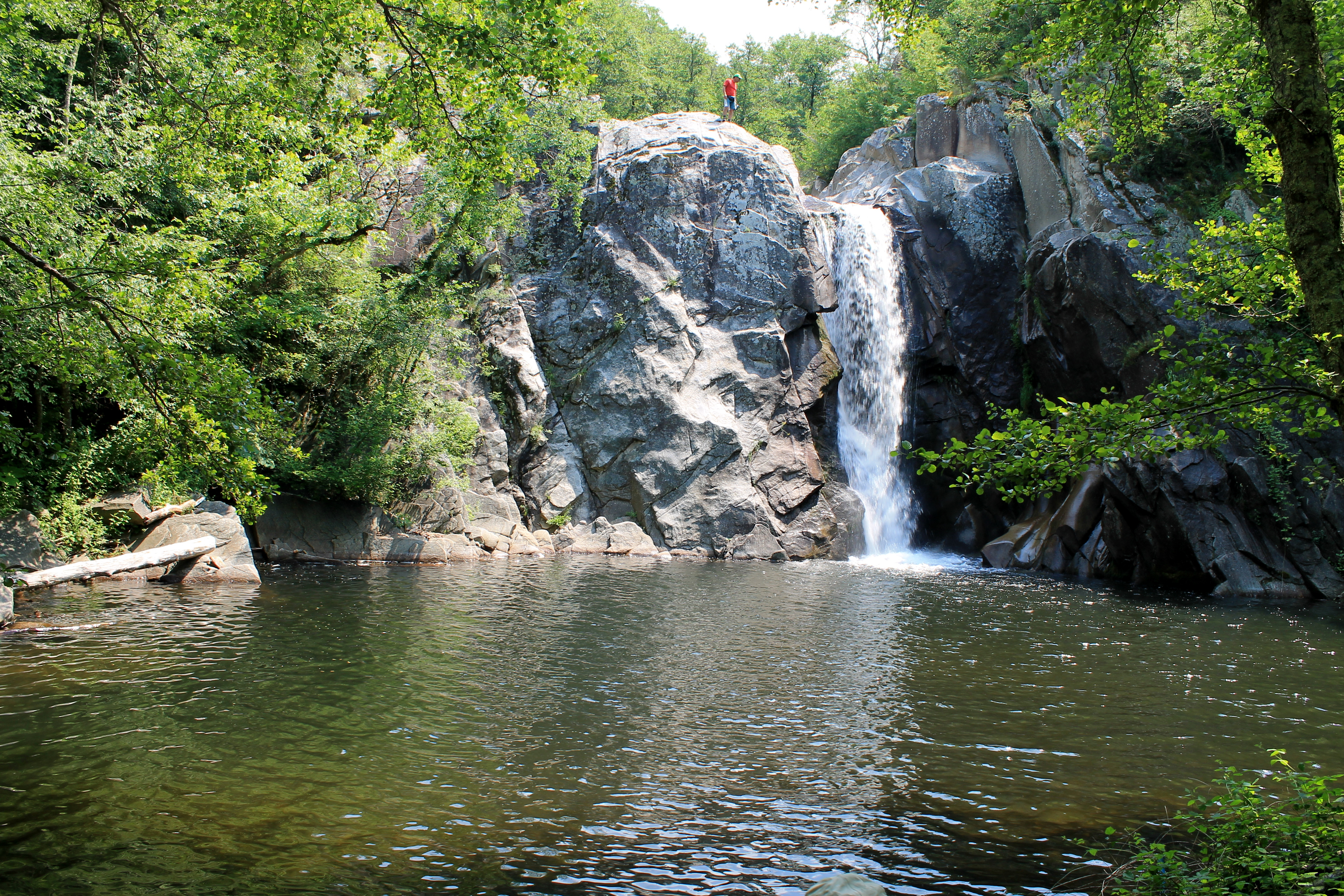 This is a photography of Natura 2000 protected area with ID GR1140001